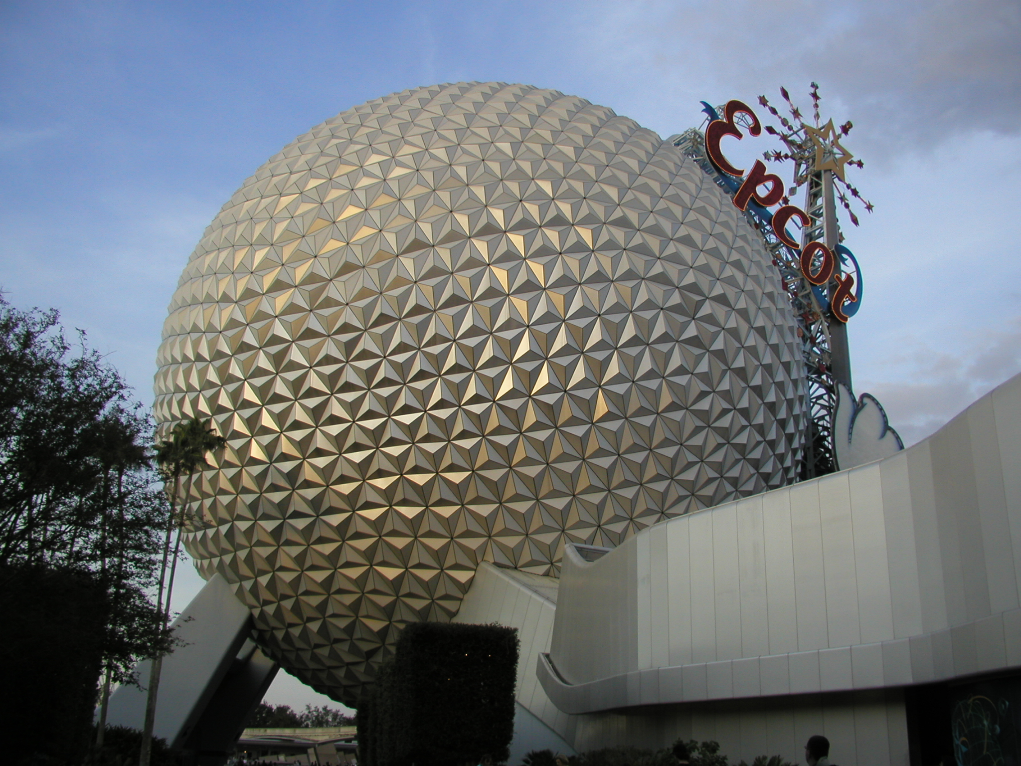 The back of Spaceship Earth at Epcot at Walt Disney World.